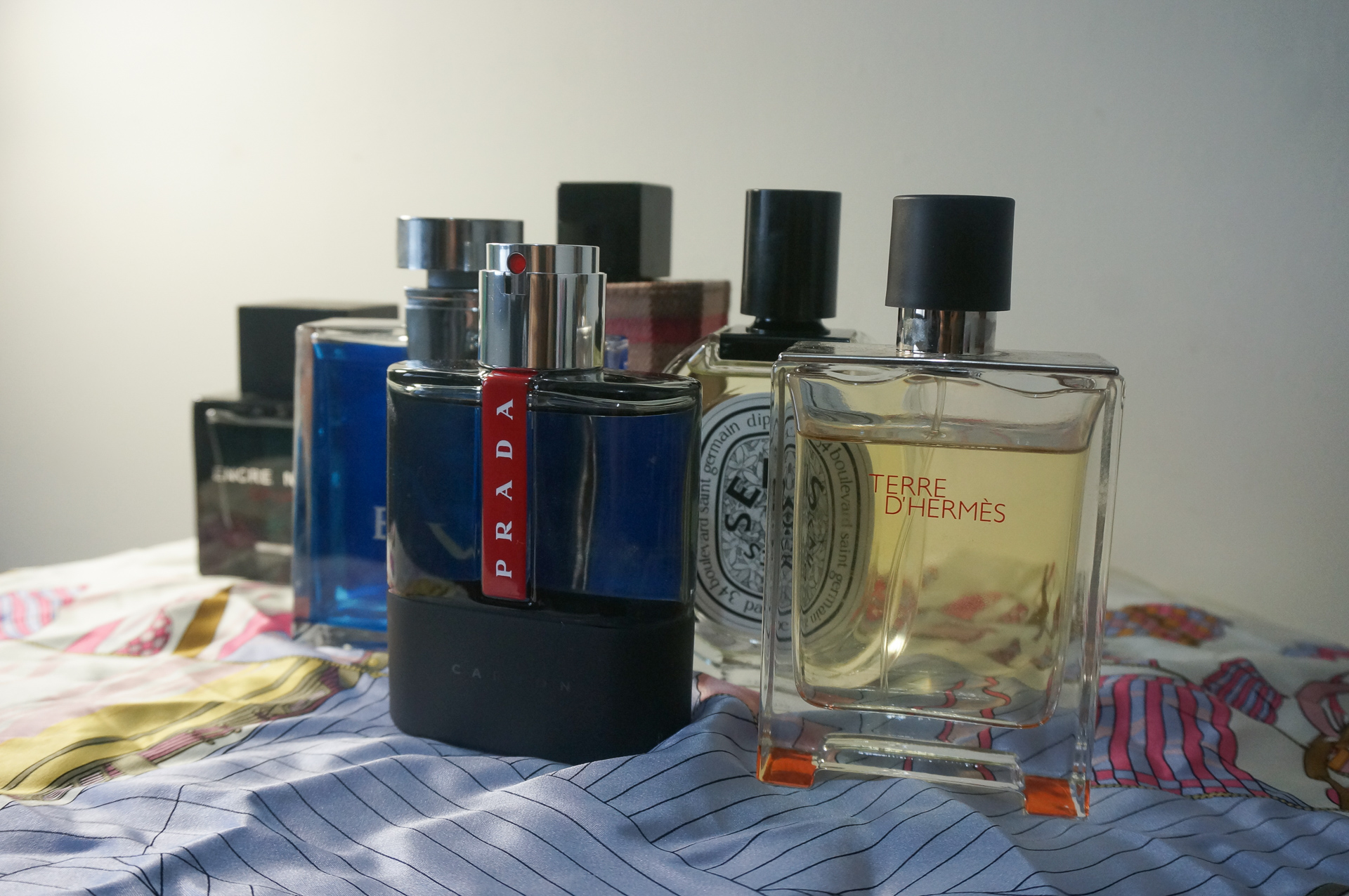 The collection includes: Prada - Luna Rossa Carbon Hermès - Terre d'Hermès Bvlgari - BLV Pour Homme Diptyque - Eau des Sens Burberry - London for Men Lalique - Encre Noire Sport